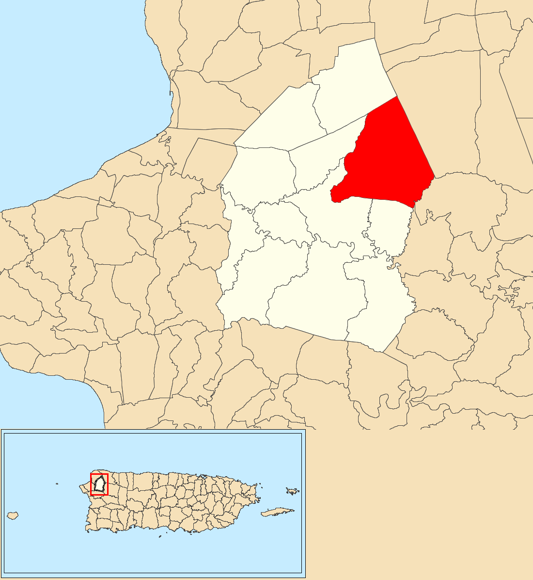 Rocha, Moca, Puerto Rico locator map